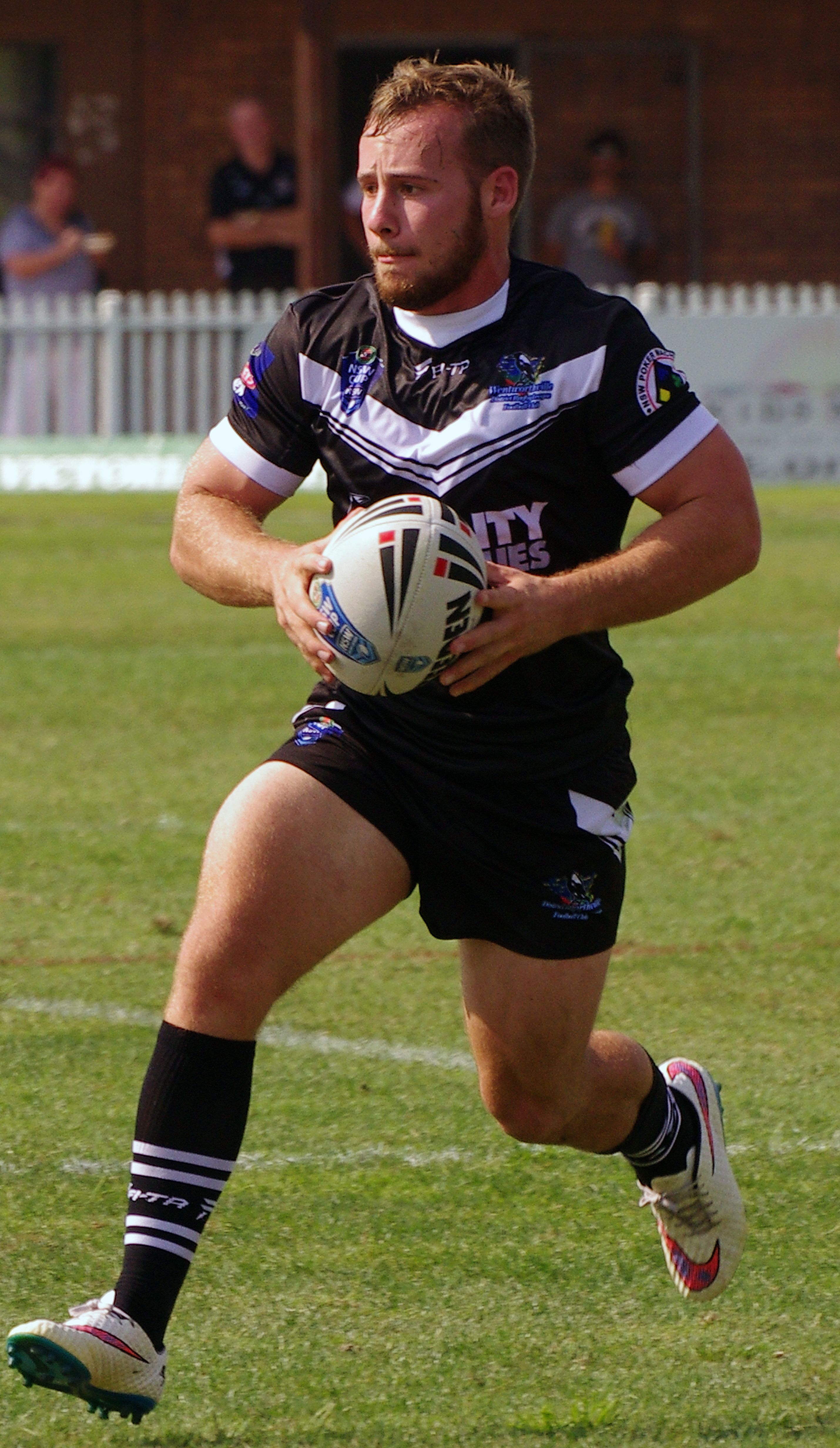 Adam Quinlan